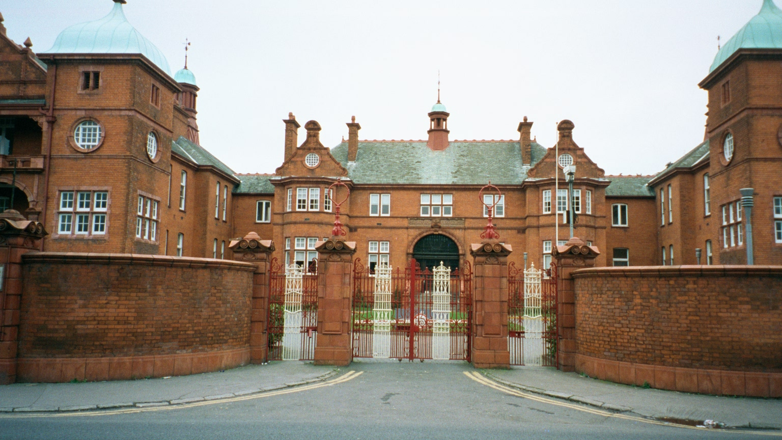 The Dublin Courthouse. Formerly the Richmond Surgical Hospital (1810), Channel Row (North Brunswick Street), Dublin 7. It was established by the Dublin House of Industry (after 1838 the North Dublin Union) located near the same site (just north of here). It was rebuilt in 1900. They used to perform leucotomies (lobotomies) here on patients resident in the nearby Grangegorman Mental Hospital (formerly the Richmond District Asylum and later St. Brendan's Hospital).